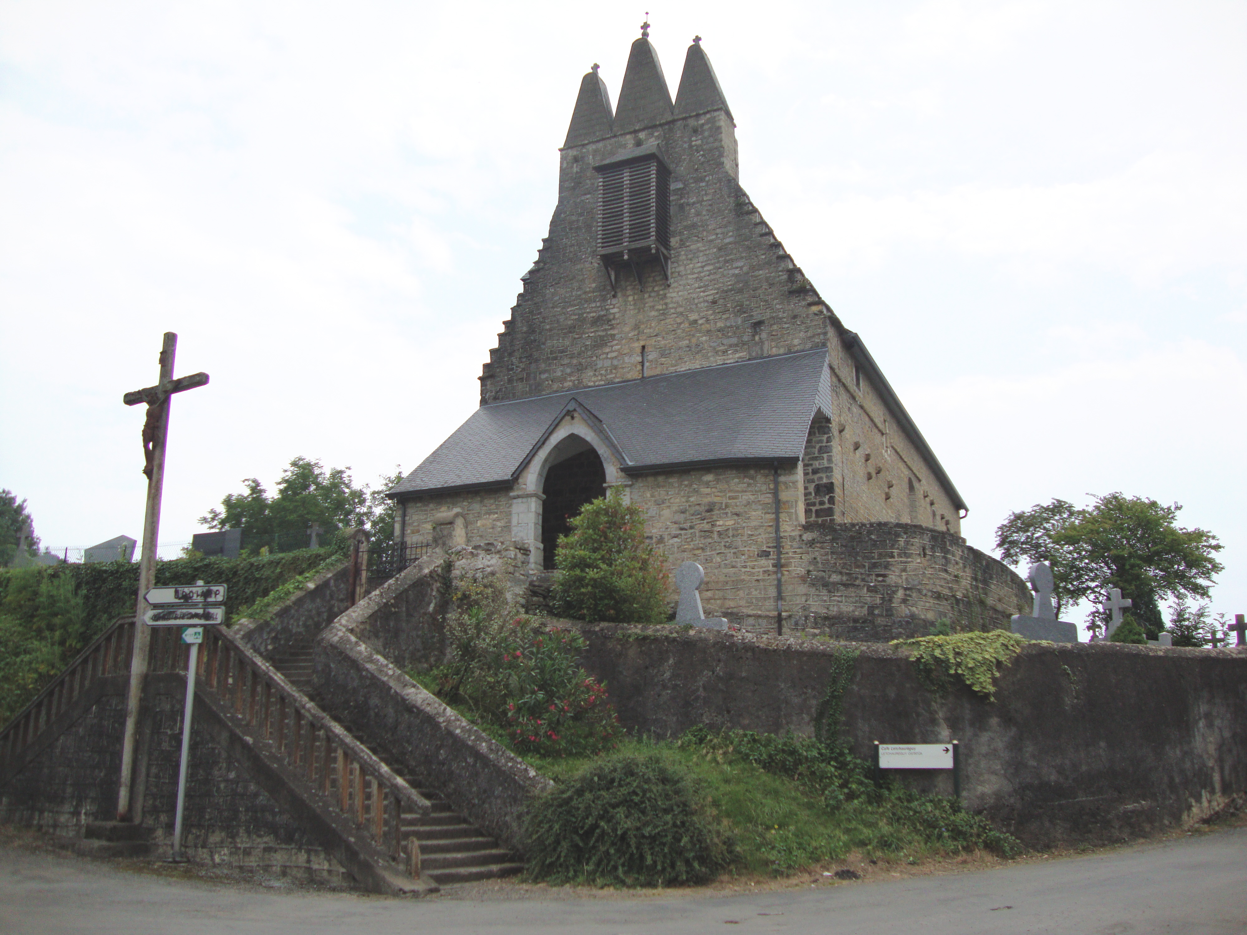 Aussurucq (Pyr-Atl, Fr) the church with its trinitariar steeple. In the cemetery, some discoidal steles are visible